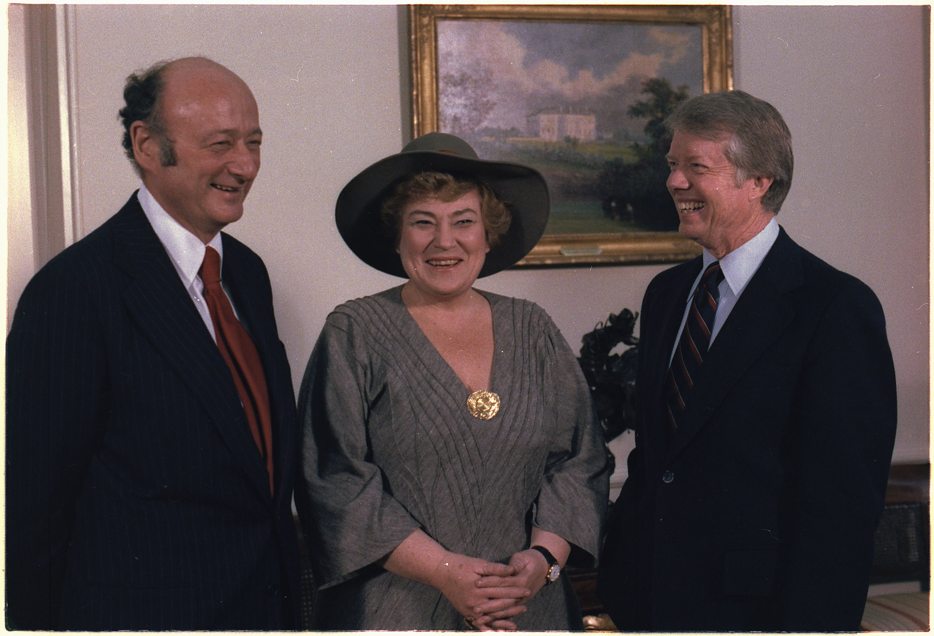 Mayor Ed Koch of New York, Congresswoman Bella Abzug (Dem-NY) and President Jimmy Carter during a meeting in 1978.